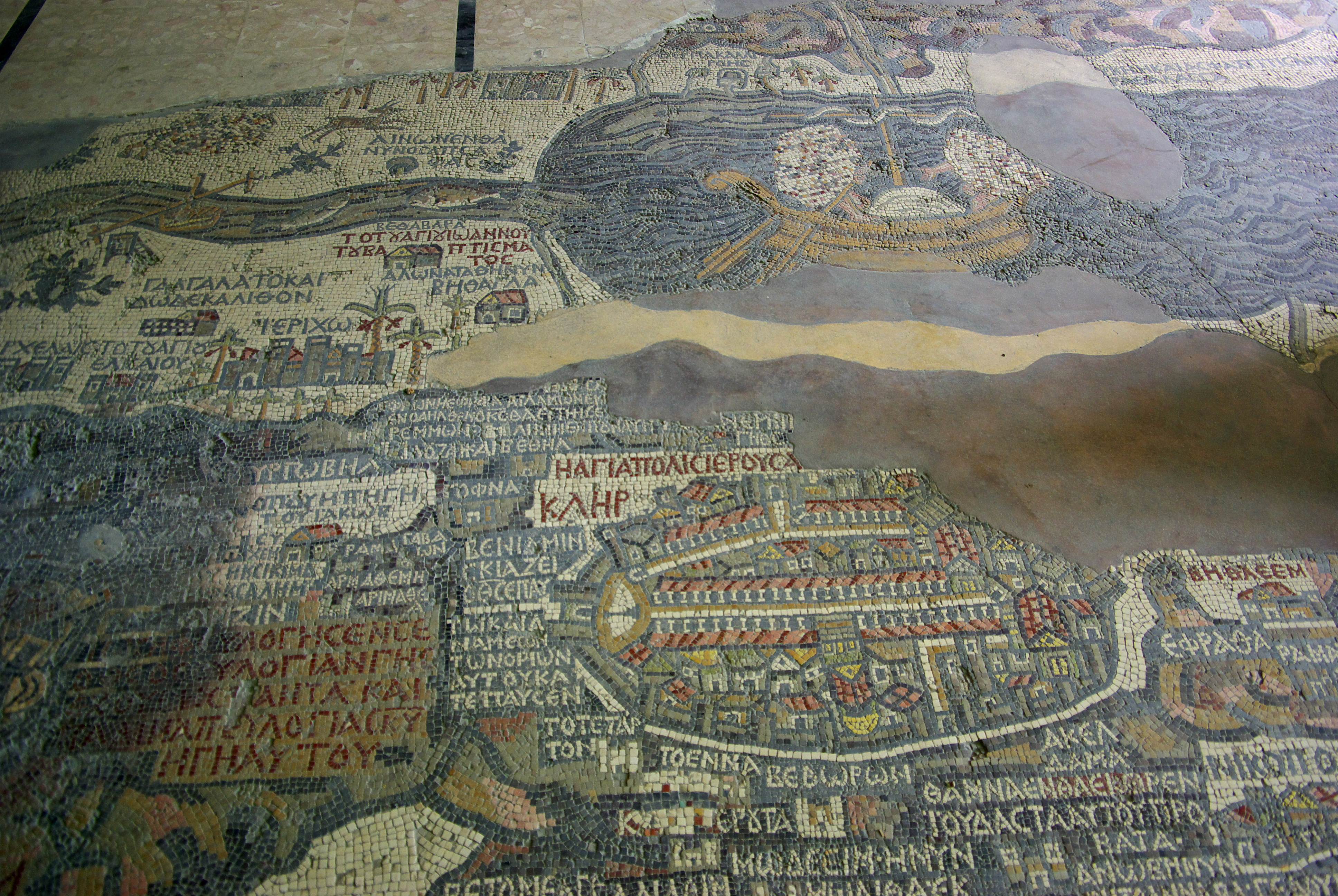 Madaba, Jerusalem on the famous mosaic floor